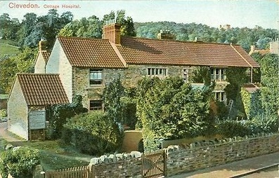 Old postcard of Clevedon Cottage Hospital